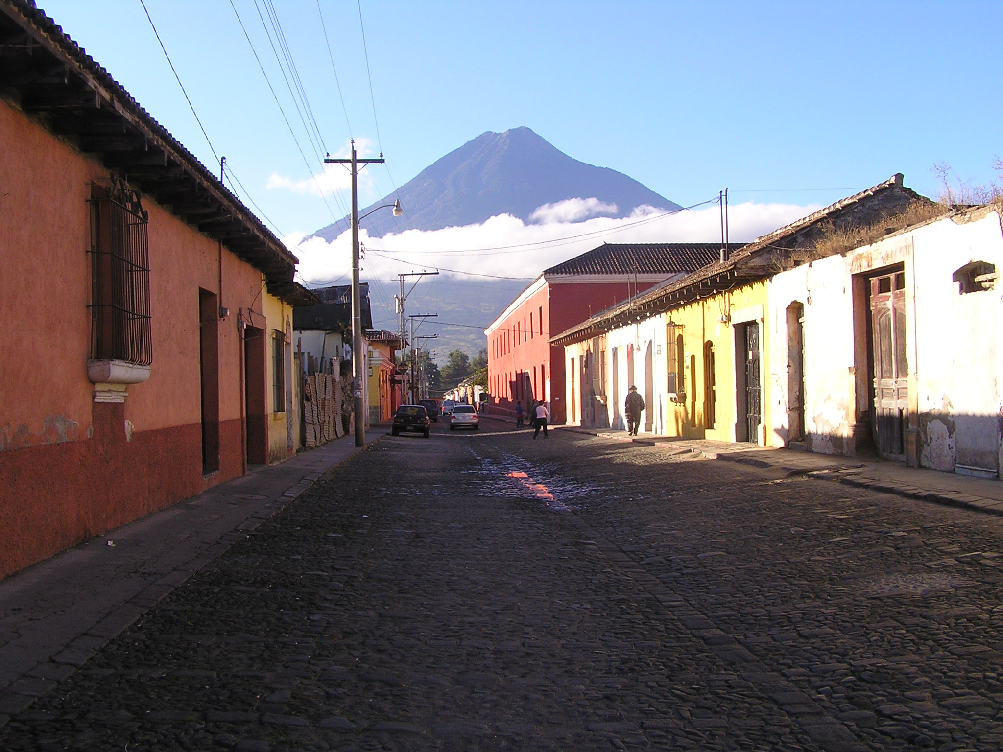 Antigua, Looking towards Volcan Agua